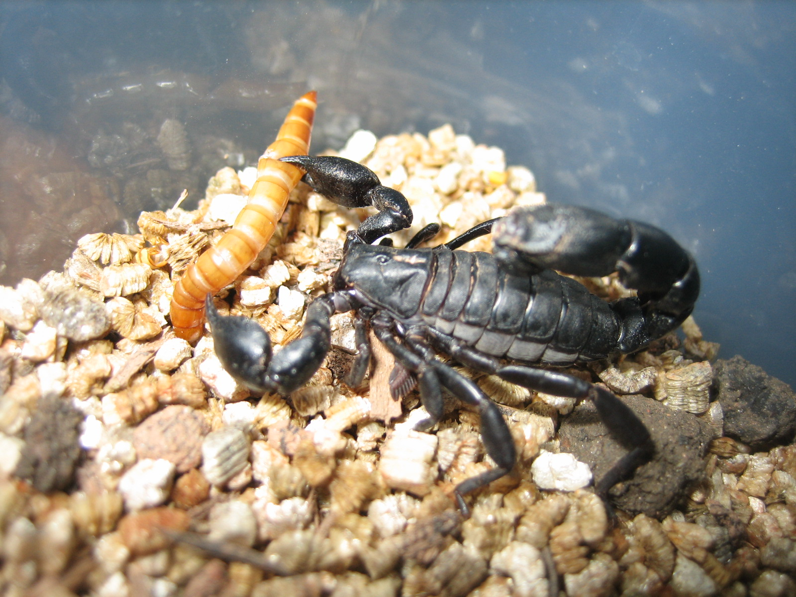 Bothiurus bonariensis male